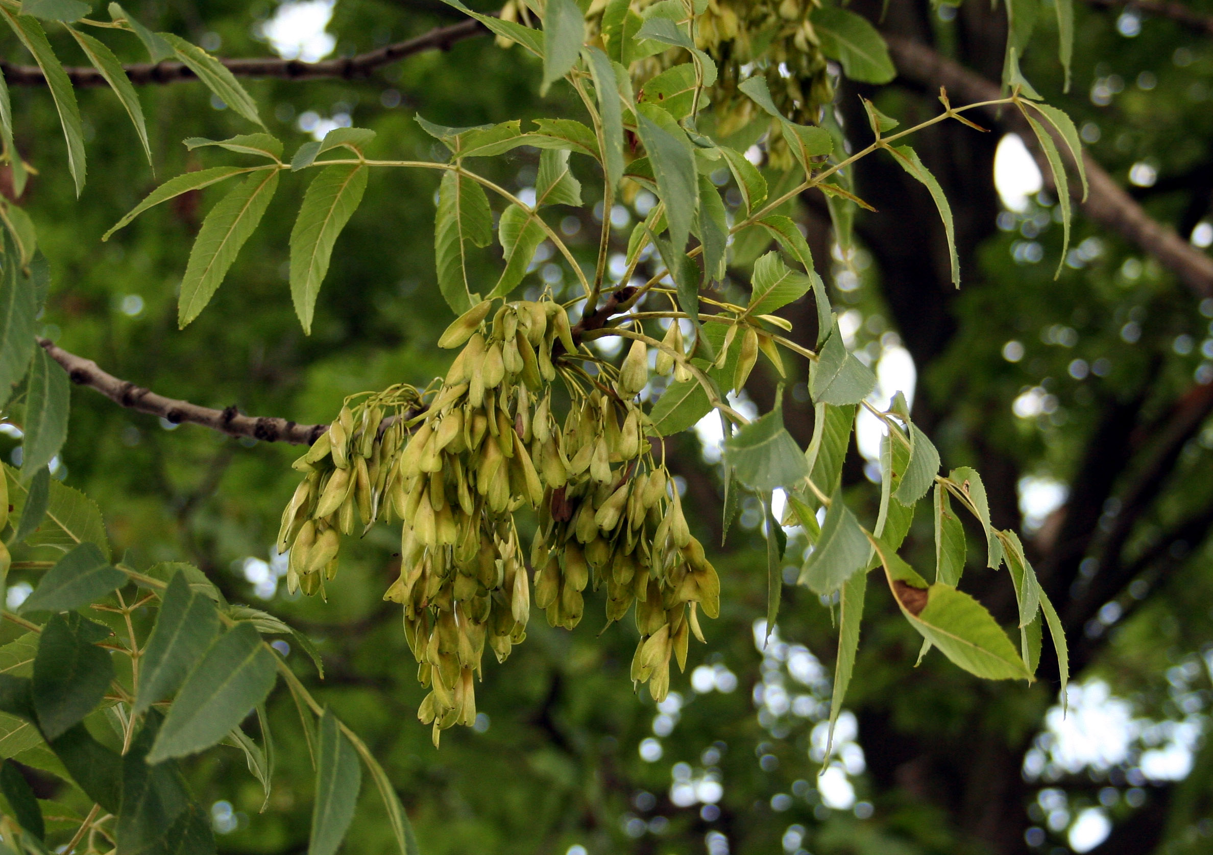 Fraxinus_excelsior, seeds